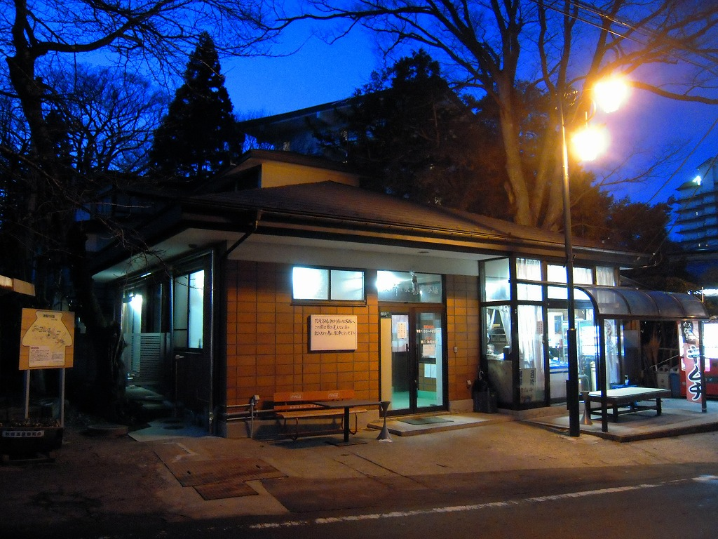 Akiu Onsen public bath (Taihaku-ku,Sendai,Miyagi,Japan)